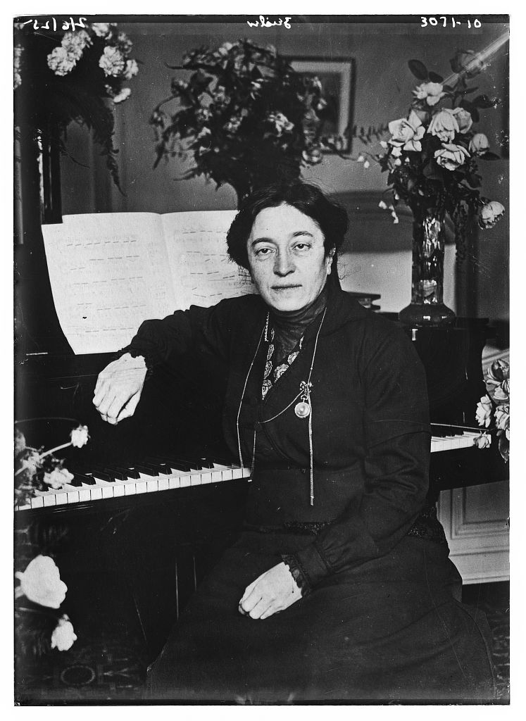 Fannie Bloomfield Zeisler Bain News Service,, publisher. Wlaiez ?? at piano [between ca. 1910 and ca. 1915] 1 negative : glass ; 5 x 7 in. or smaller. Notes: Title from unverified data provided by the Bain News Service on the negatives or caption cards. Forms part of: George Grantham Bain Collection (Library of Congress). Format: Glass negatives. Repository: Library of Congress, Prints and Photographs Division, Washington, D.C. 20540 USA, General information about the Bain Collection is available at Persistent URL: Call Number: LC-B2- 3071-10